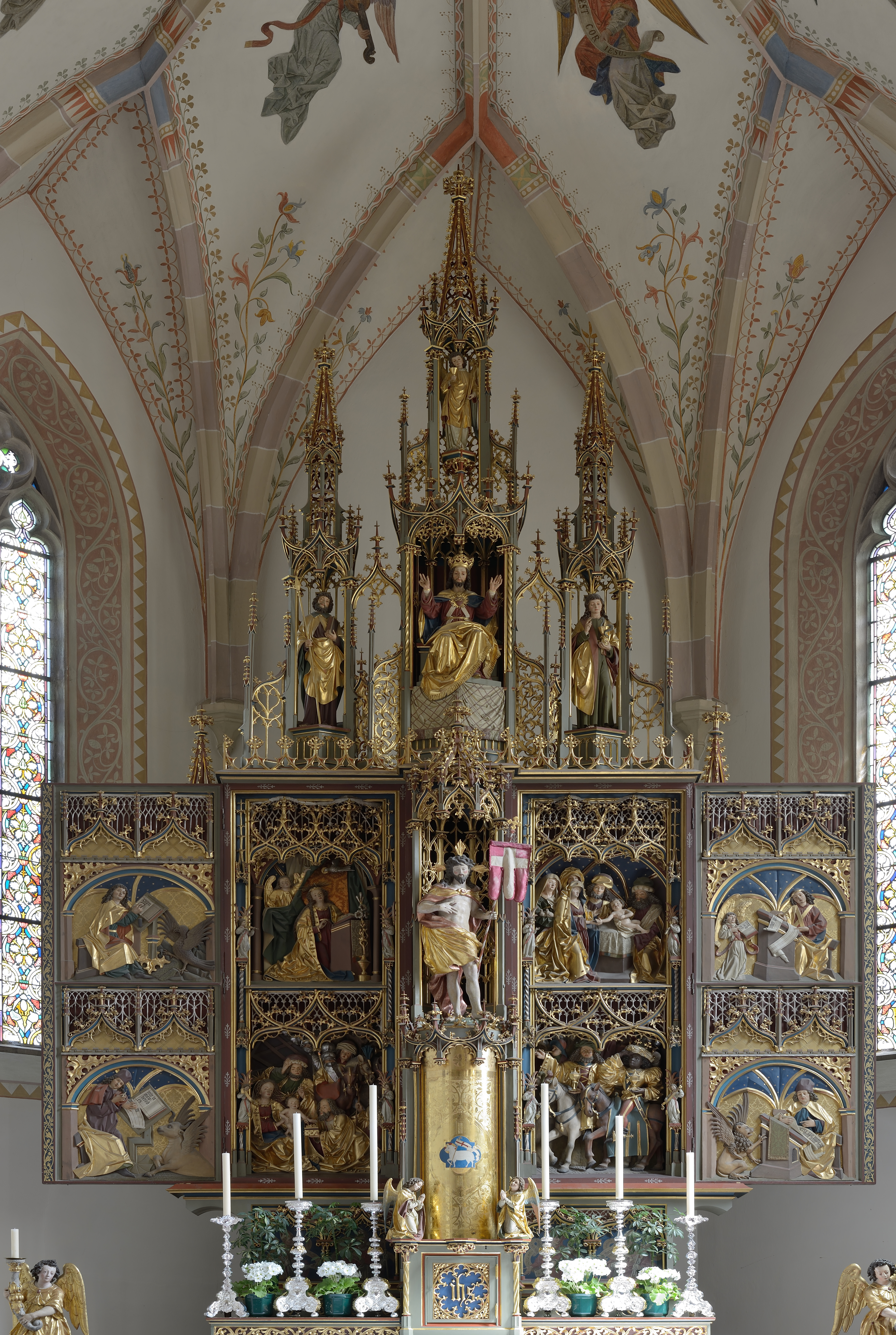 Retable in the parish church of Völs am Schlern by Meister Narziß from Bozen completed AD 1488